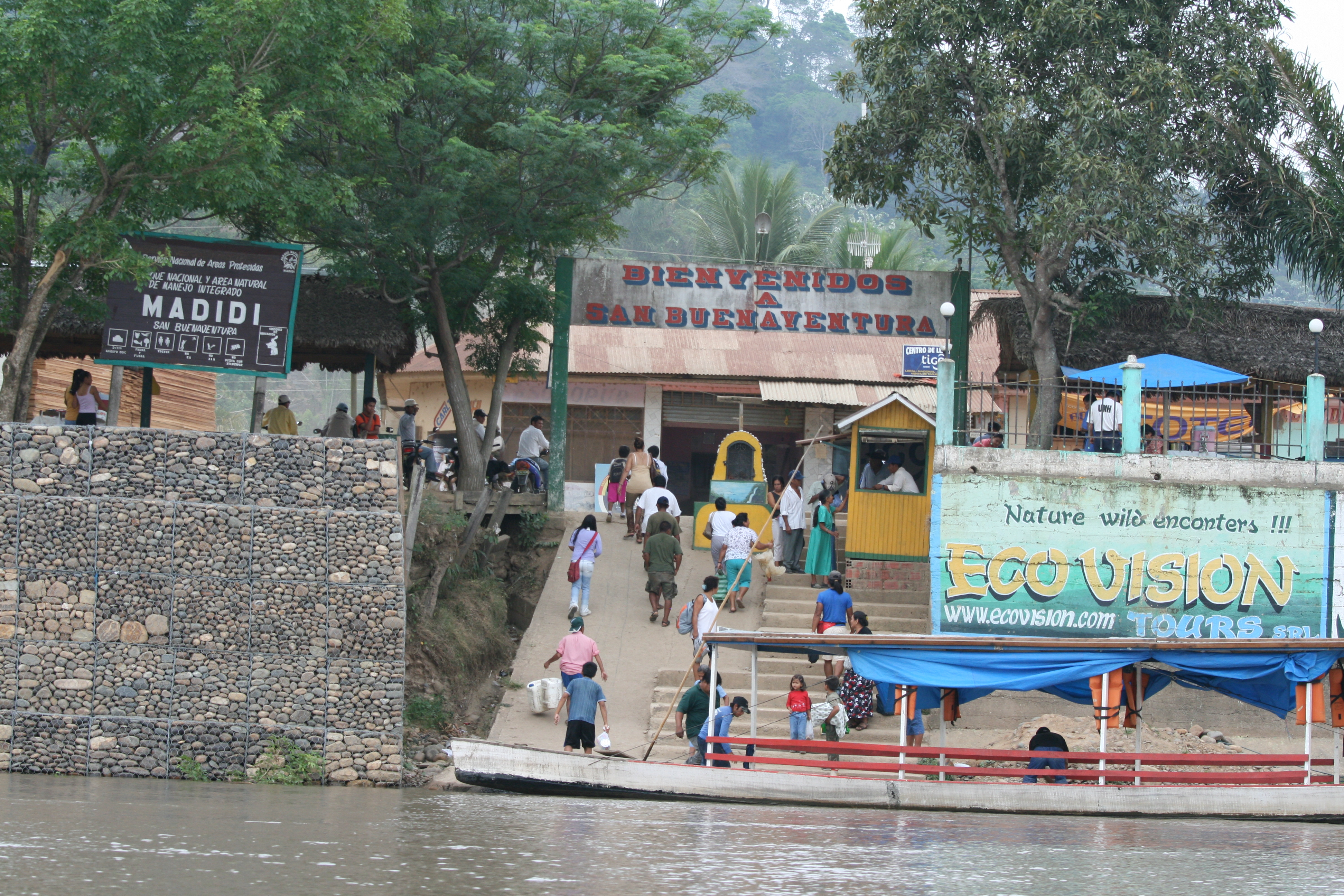 San Buenaventura Wharf, across the Beni River from Rurrenabaque, Bolivia. Photographed on 26 November 2008